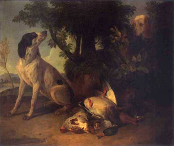 Dogs Sitting Next to Hunting Trophies (by Pierre-Adolphe Badin) Oil on Canvas 42.9 x 51.6 in. / 109 x 131 cm